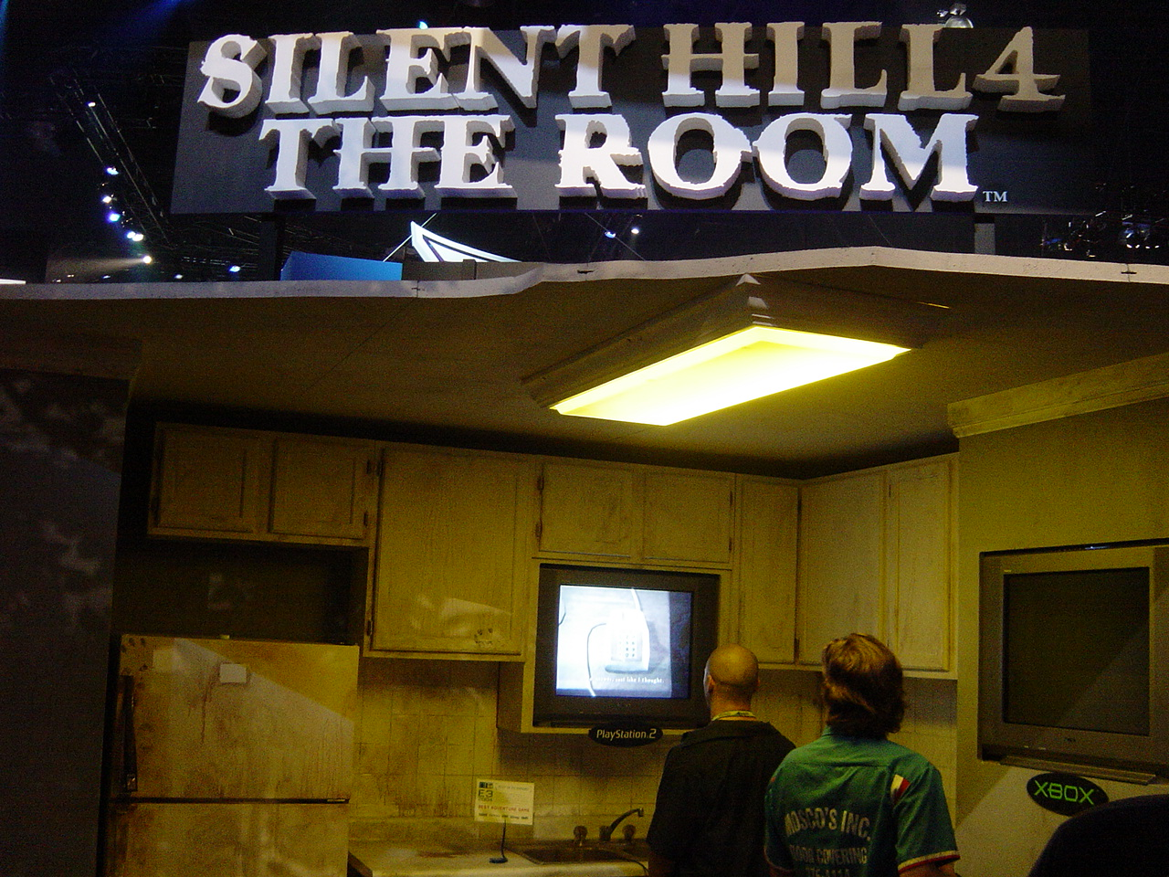 Taken on May 15, 2004 Dowtown Carrier Annex, Los Angeles, CA, US Sony Cybershot